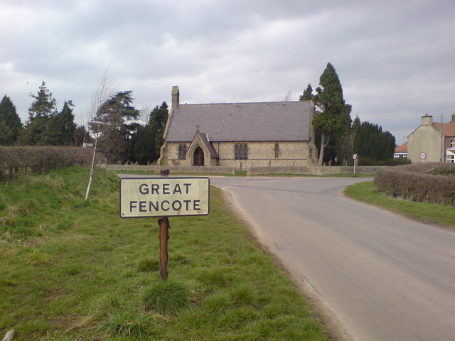 Chapel of Ease, [Great] Fencote, North Yorkshire